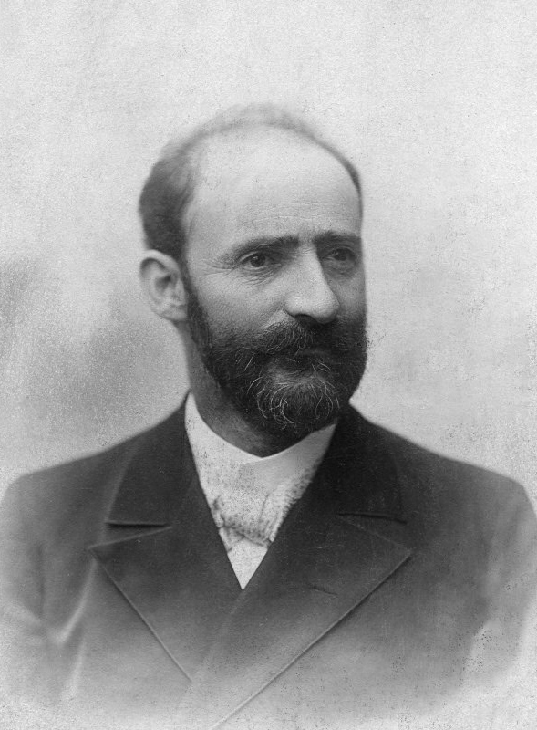 Muratsan (orig. Grigor Ter-Hovhanissian,) December 1, 1854, - September 12, 1908, was an Armenian prolific writer․